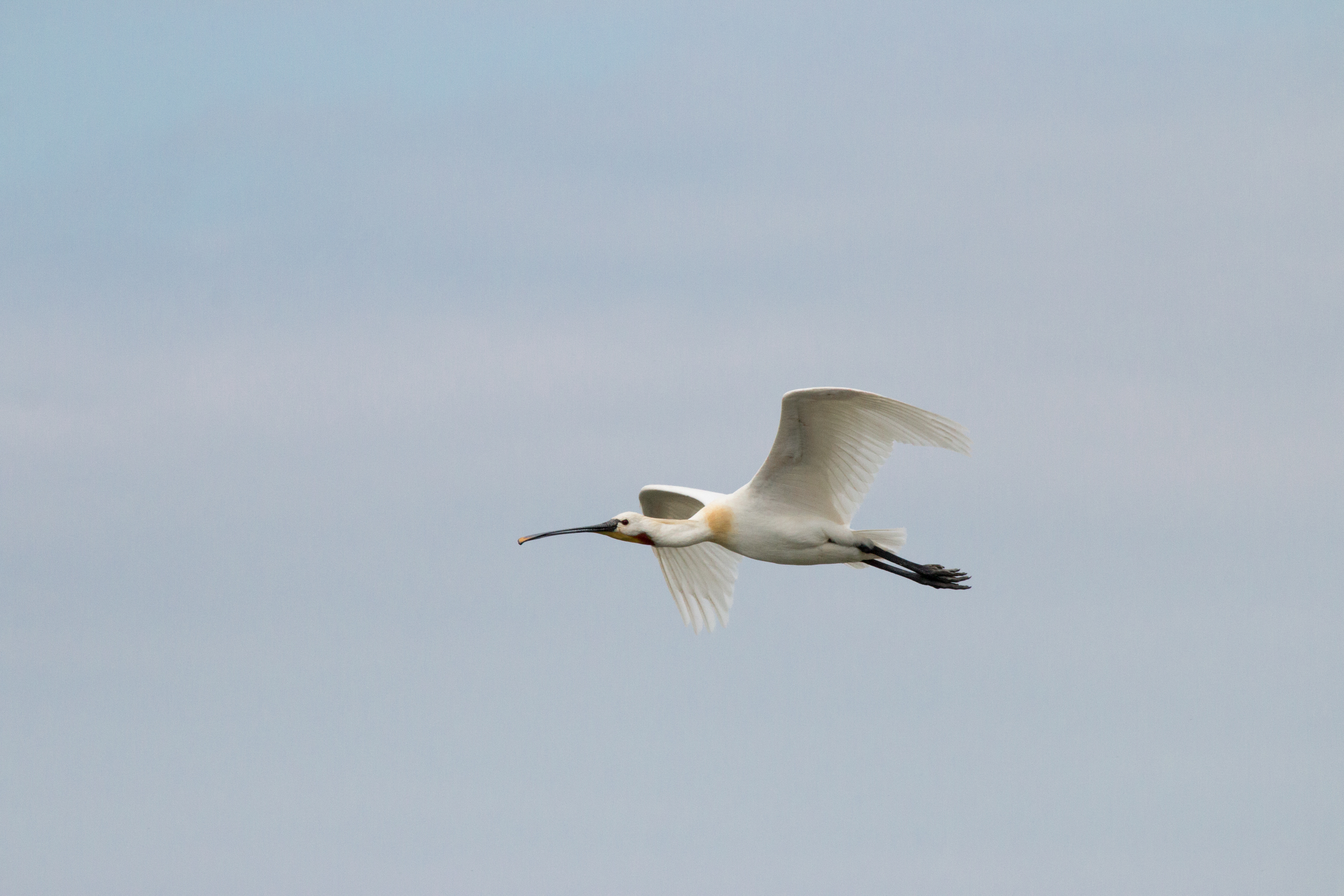 Natural life in Kekrini lake, Serres, Greece This is a photography of Natura 2000 protected area with ID GR1260008